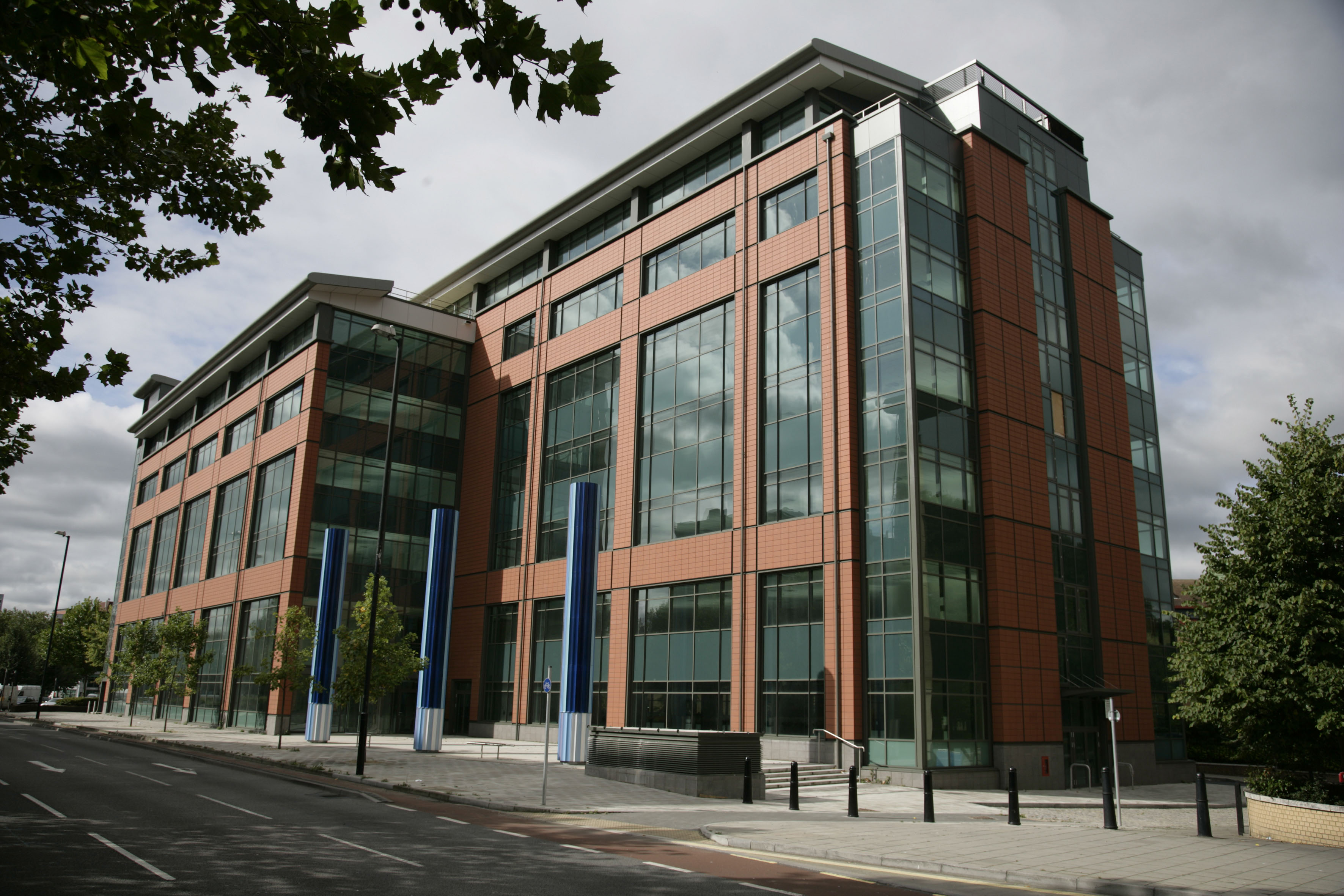 University of Law campus in Bristol at Temple Circus House, Temple Way.